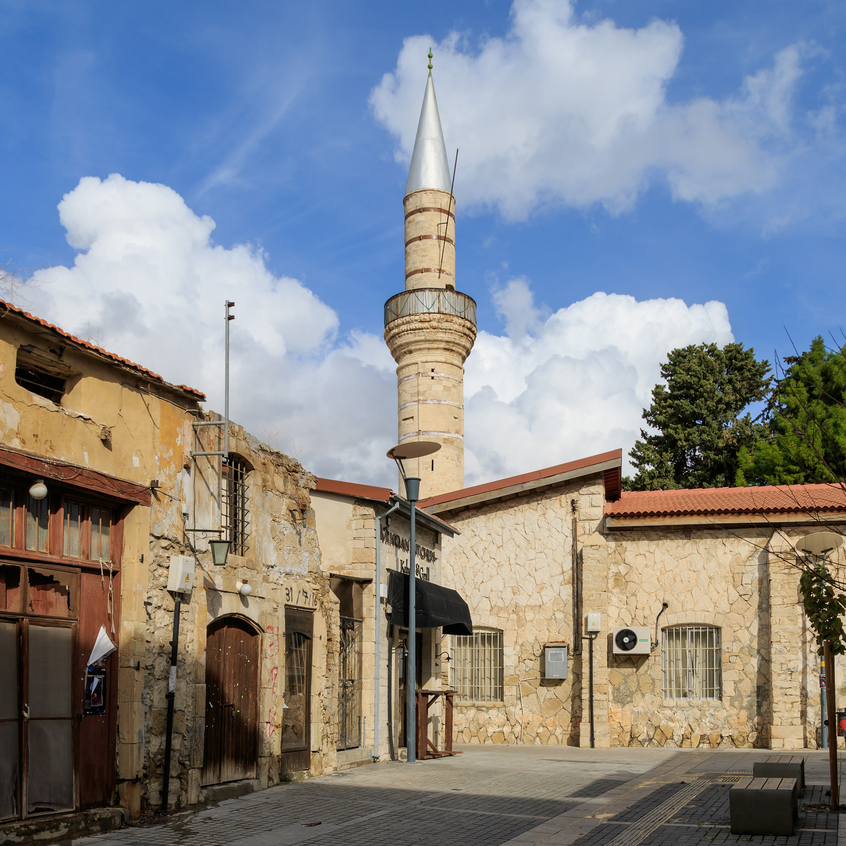 Kebir Great Mosque in Limassol, Cyprus